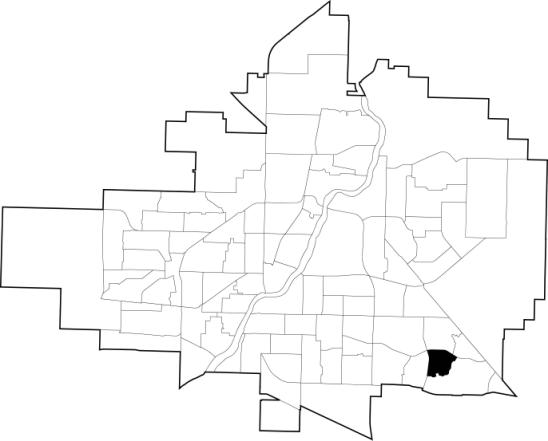 A map showing the location of the Lakeview neighbourhood in relation to the other neighbourhoods in Saskatoon, Saskatchewan, Canada.